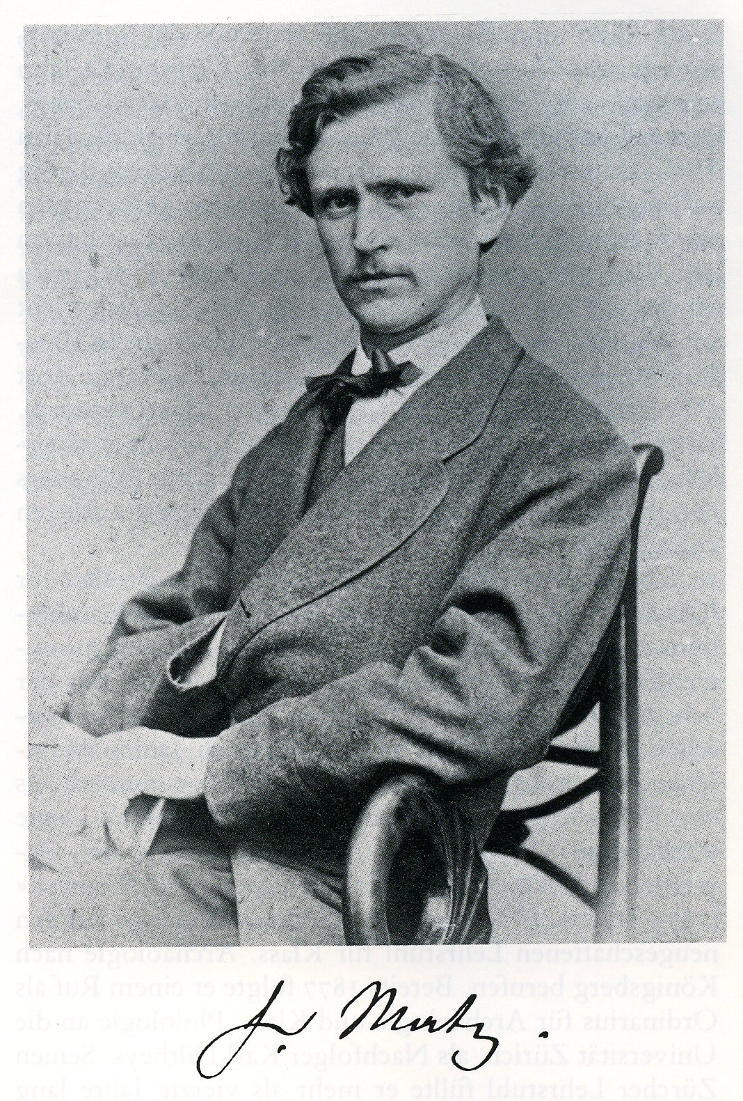 german Archaeologist Friedrich Matz the elder